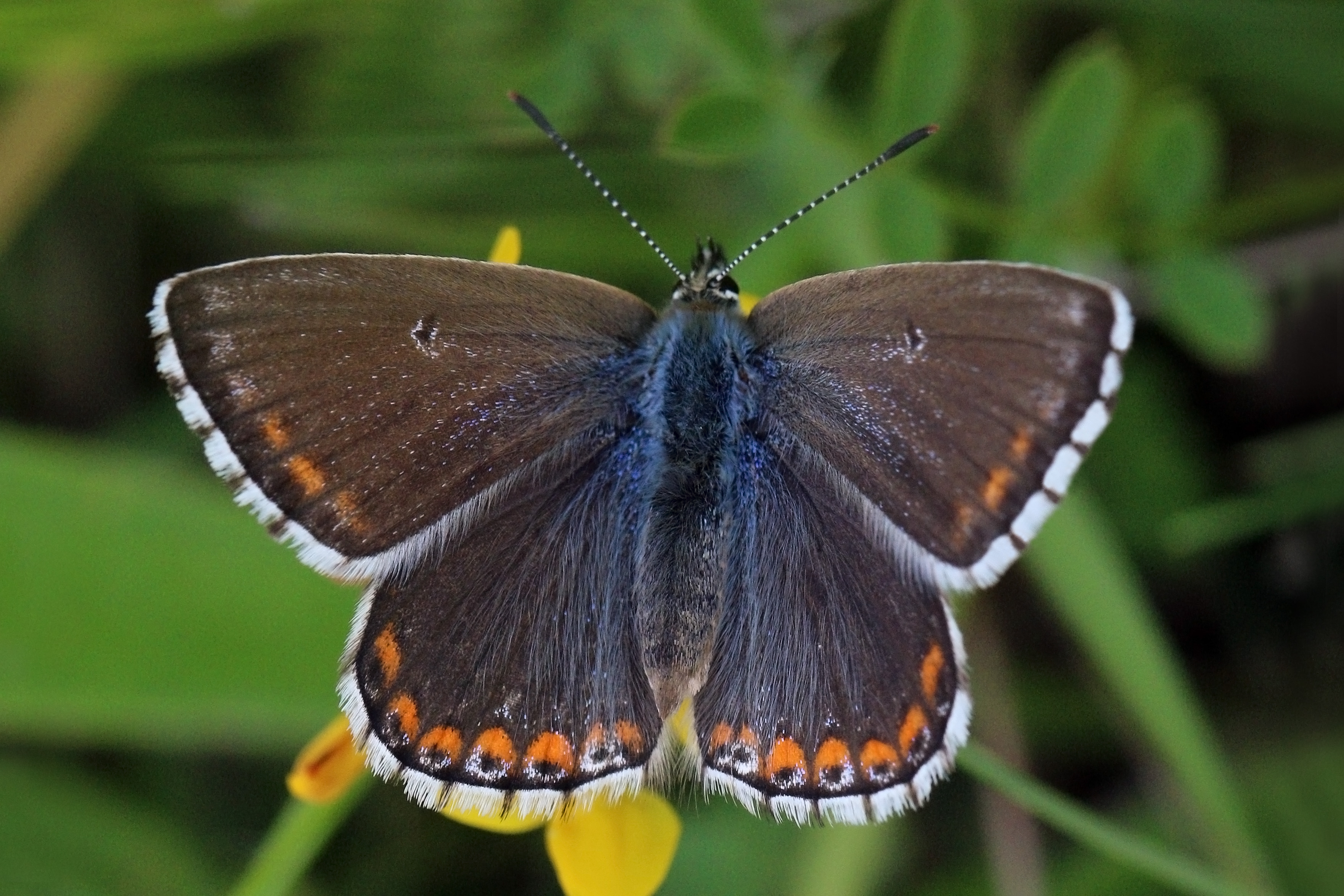 Adonis blue butterfly (Polyommatus bellargus) female, Yoesden Bank, Buckinghamshire